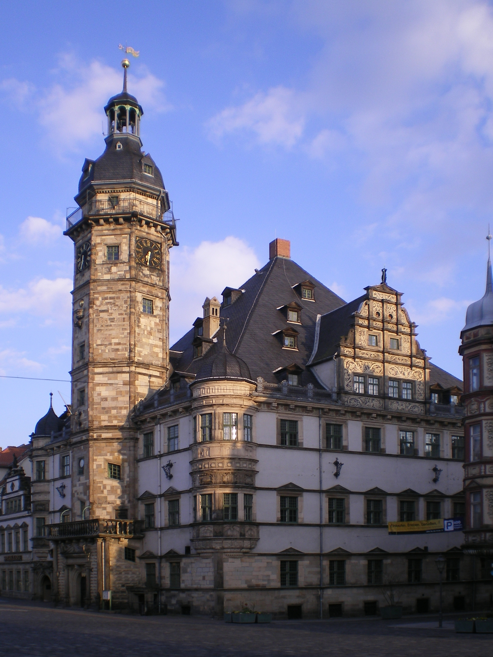 Town hall in Altenburg/Thuringia, the city of Skat